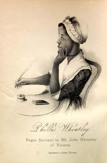 Phillis Wheatley. A variant of earlier frontispiece. Copied from "Documenting the American South" collection